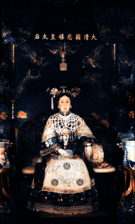 Portrait of Empress Dowager